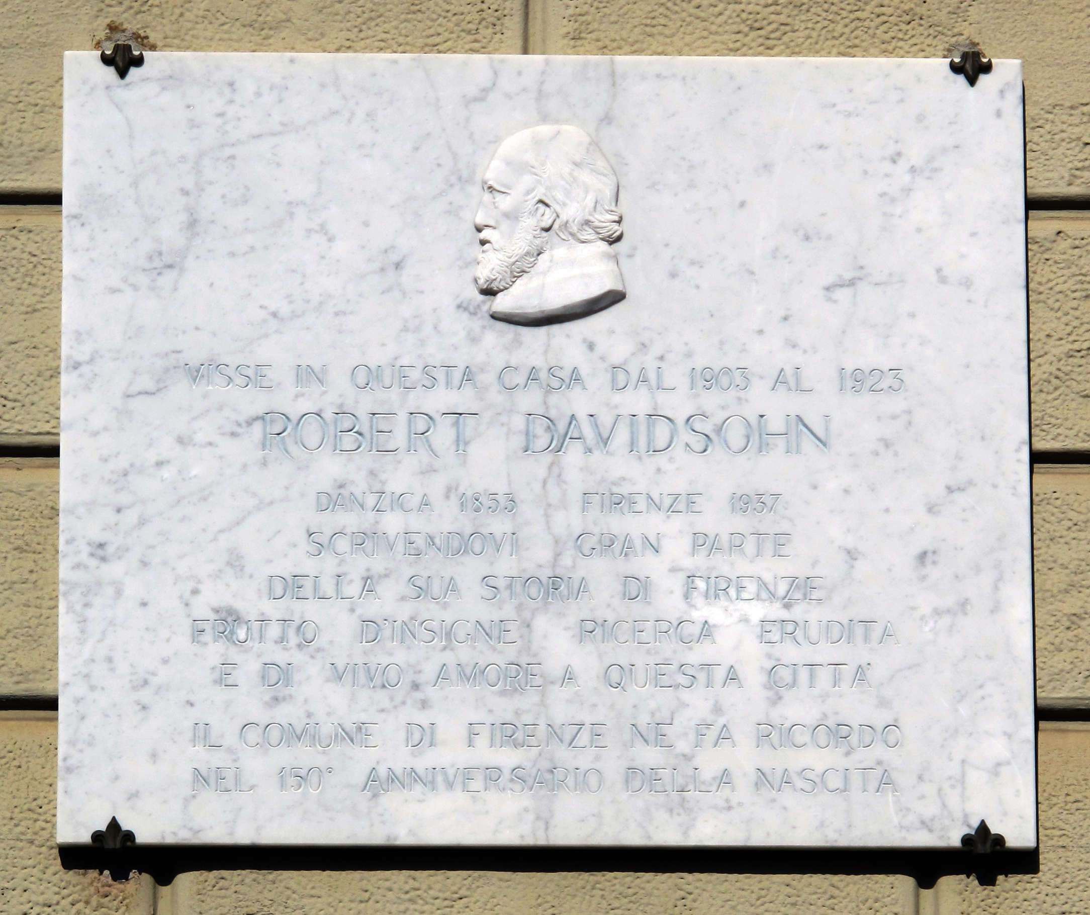 Florence, Italy (see filename)